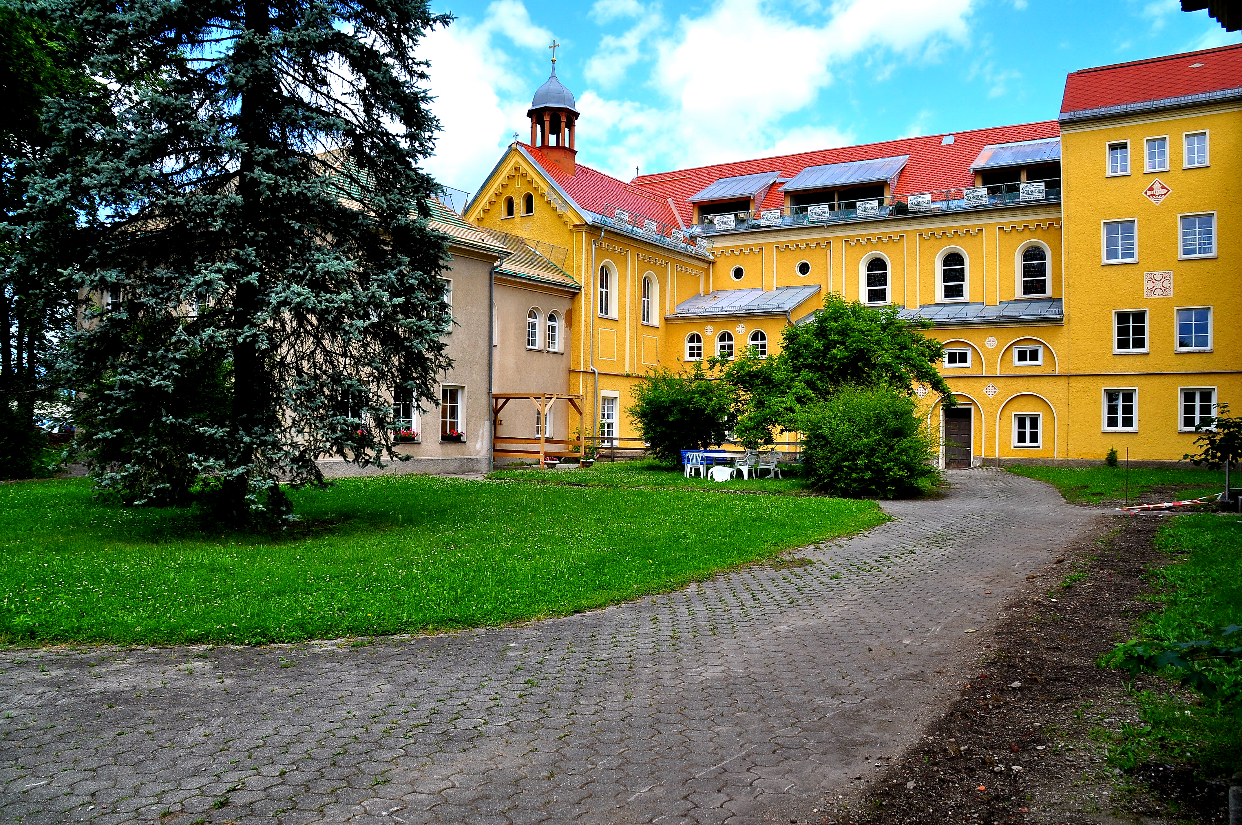 Castle and monastery “Harbach” on the Harbacher Strasse #70 in the 10th district "Sankt Peter" of Carinthian`s capital Klagenfurt on the Lake Woerth, Carinthia, Austria